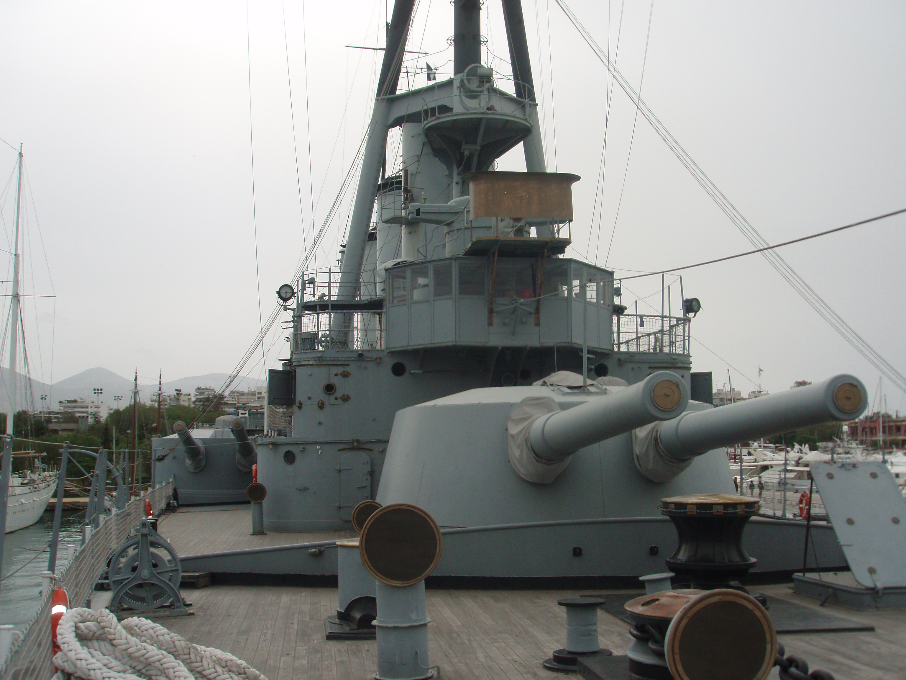 View of the conning and battle bridges and the bow 234 mm main gun turret of the armoured cruiser Georgios Averof at the Maritime Tradition Park in Faliron, Greece